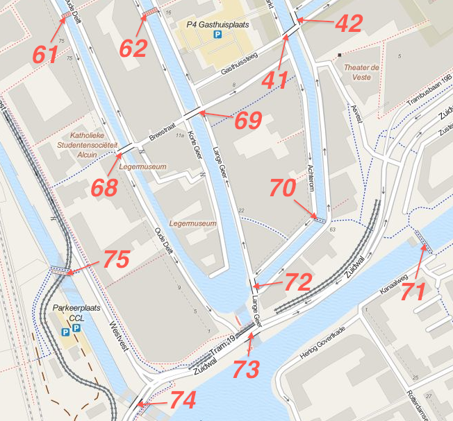 Map has bridges marked in the centre area of Delft. Map is based on Part 6 of 6.